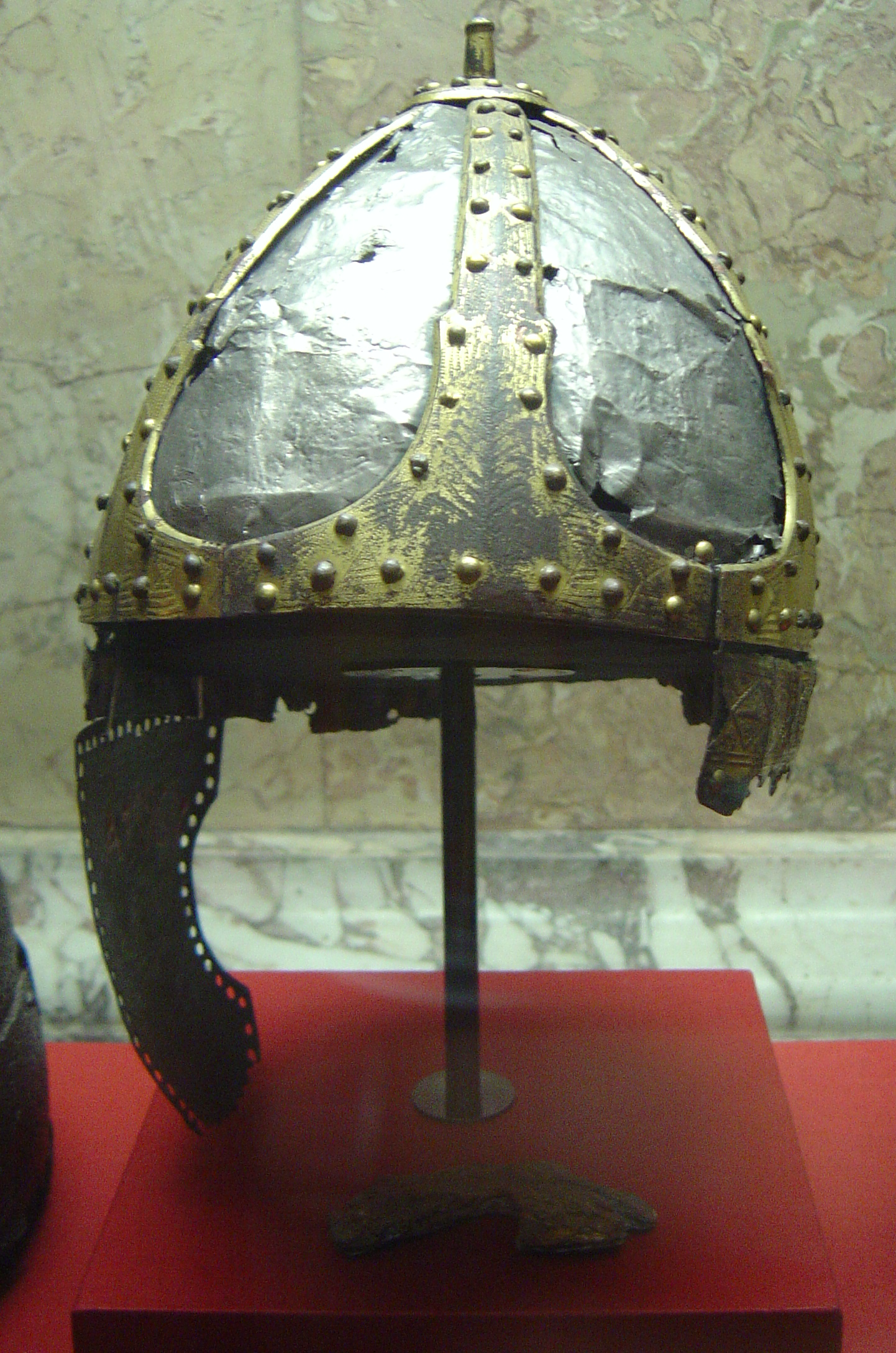 Helmets (Northern Italy? Constantinople? circa 500)